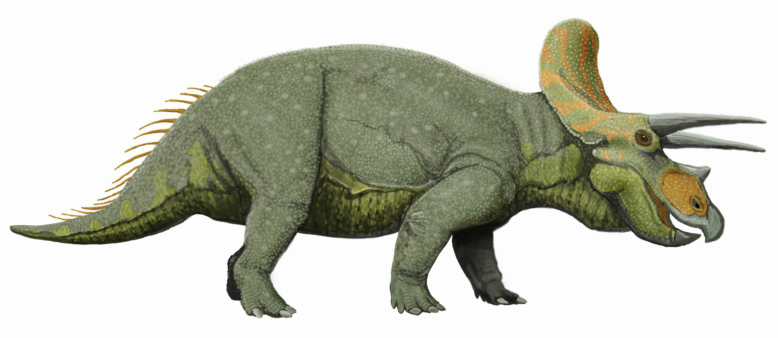 Triceratops horridus, based on skeleton from Shenkenberg Museum